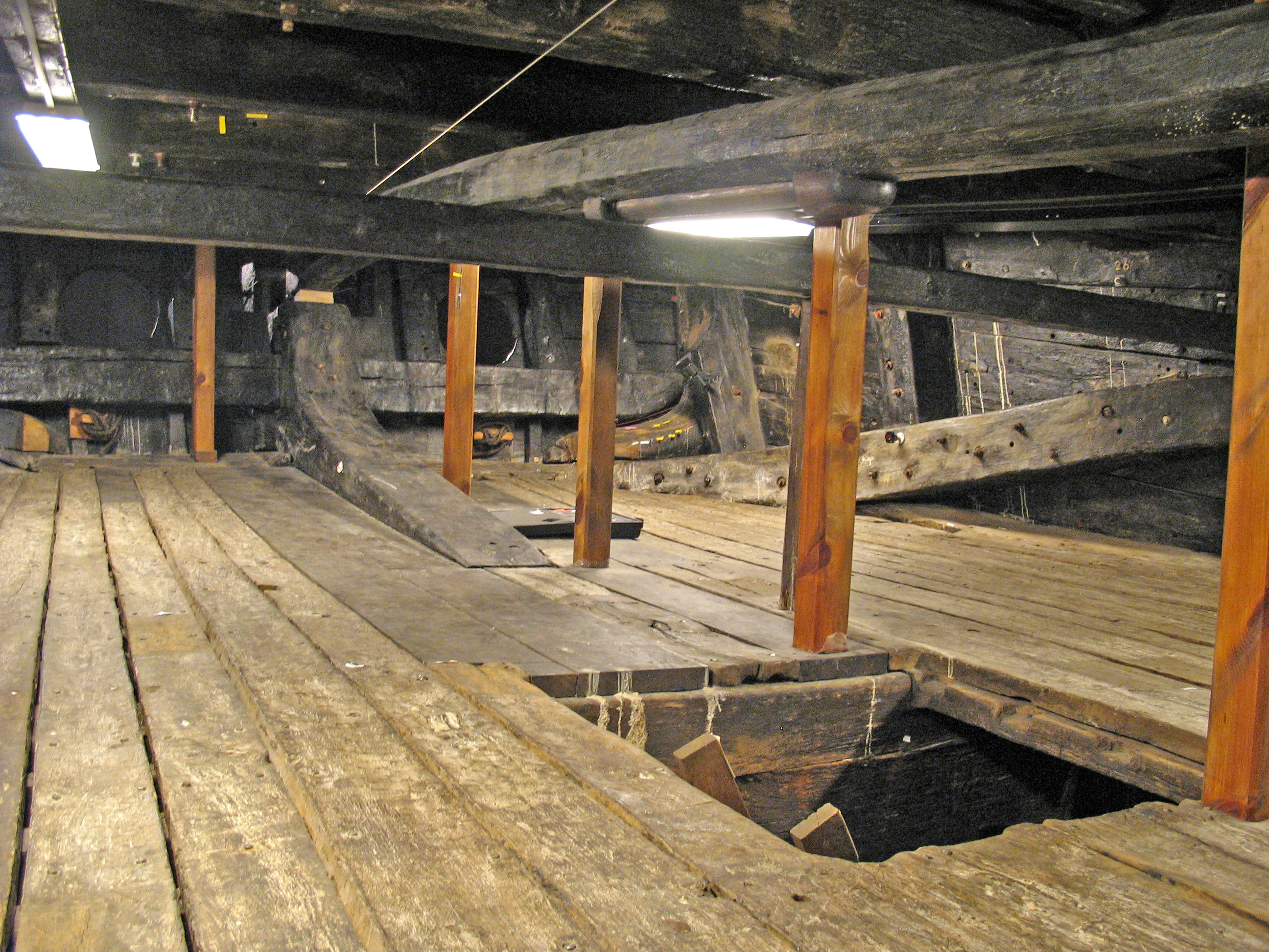 Tiller room of the warship Vasa, displayed in the Vasa Museum in Stockholm, Sweden. Picture taken from inside the ship (lower gun deck) looking aft.